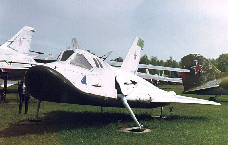 One of MiG-105 "Spiral" in Monino Air Force Museum